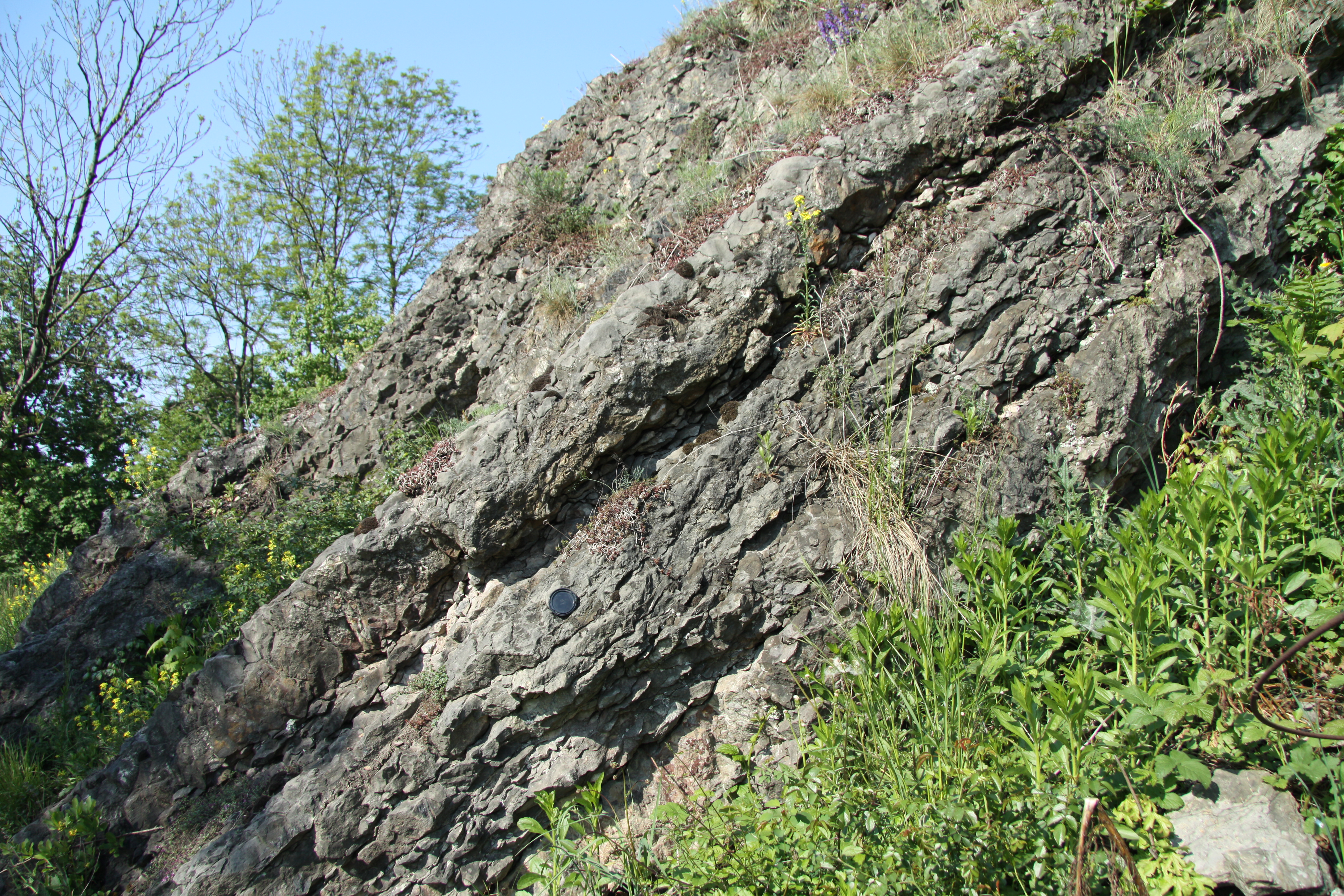 Natural monument Pod Žvahovem in Hlubočepy, Prague, Czech Republic - Google Maps - Google Earth